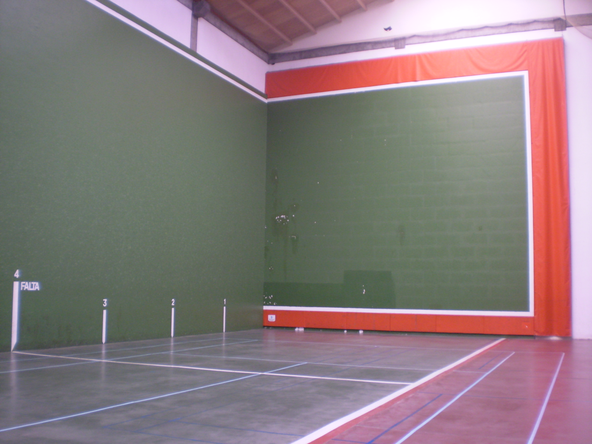 A basque pelota court. Covered short fronton in La Coruña.